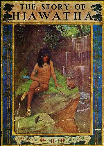 The Story of Hiawatha - from The Story of Hiawatha, Adapted from Longfellow by Winston Stokes and Henry Wadsworth Longfellow - Illustrator M. L. Kirk - 1910